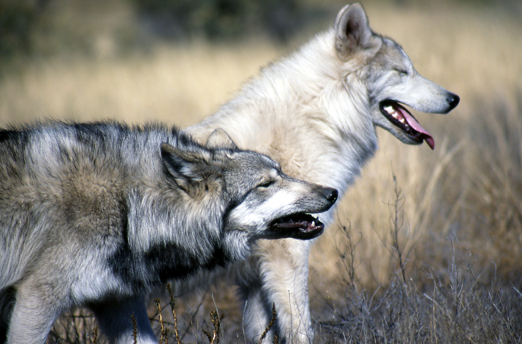 This image is in the public domain. Learn more about the different wolves of the world here: Types of Wolf